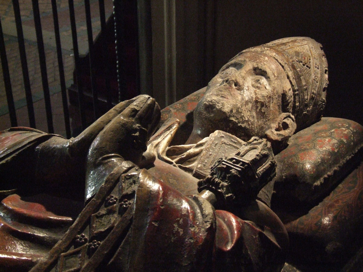 Detail of the tomb of John de Sheppey in Rochester Cathedral, Rochester, Kent, England. Sheppey was Bishop of Rochester from 1352 and died in 1360.